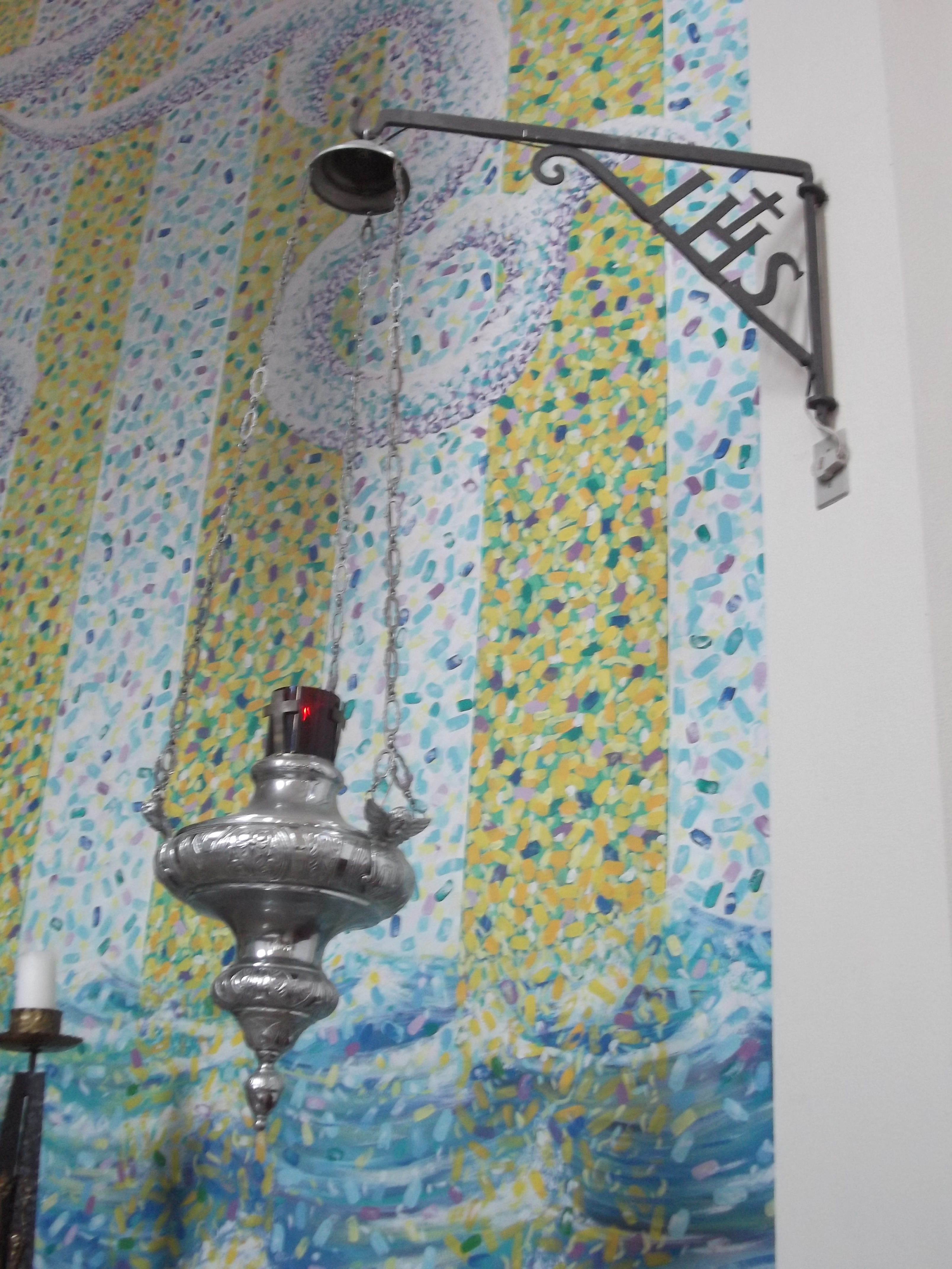 Saint Maurus Church, Santo Amaro da Imperatriz, Santa Catarina State, Brazil